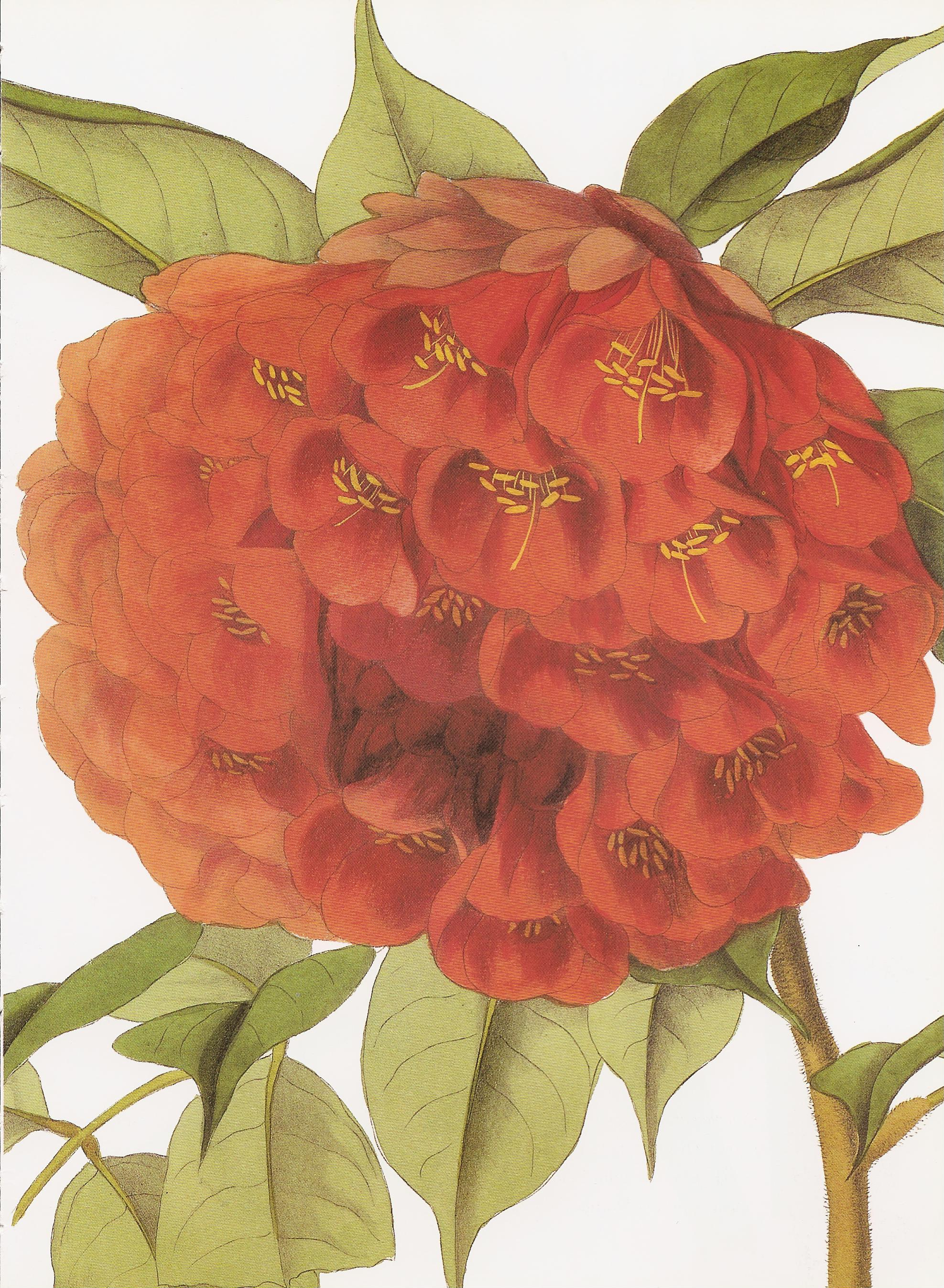 Brownea ariza, the Ariza plant, a hand-coloured chromolithograph by Louis-Aristide-Léon Constans (fl. 1830s-1860s), plate 59 from the seconde volume of Paxton's Flower Garden (1851-1852) by John Lindley and Joesph Paxton. The plant was collected by Theodor Hartweg for the Horticultural Society.